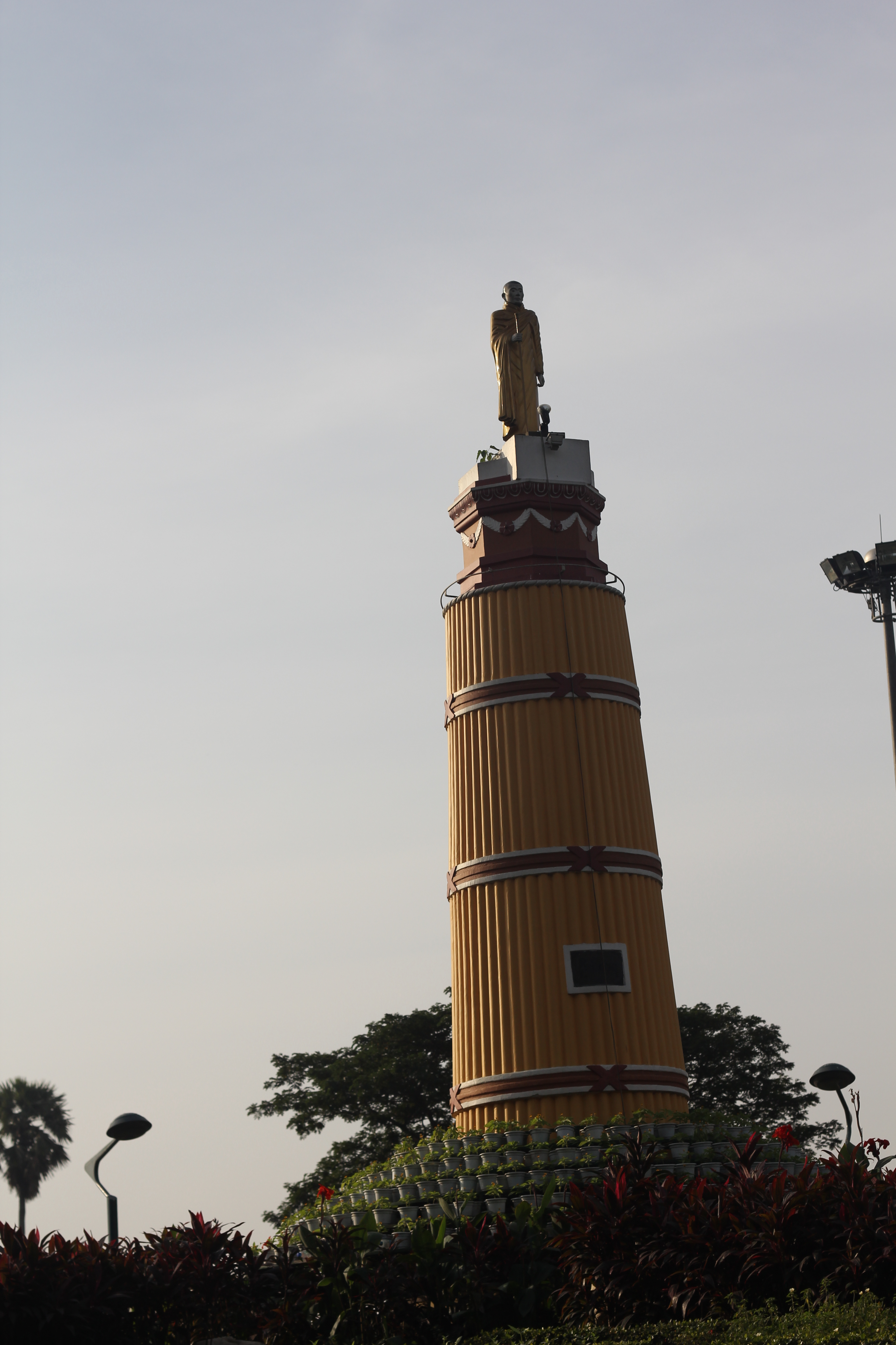 U Wisara Monument at U Wisara Junction.မြန်မာဘာသာ: ရန်ကုန်မြို့ရှိ ဦးဝိစာရလမ်းမပေါ်ရှိသည့် ဦးဝိစာရ ရုပ်တုတစ်ခုကို တွေ့ရစဉ်။